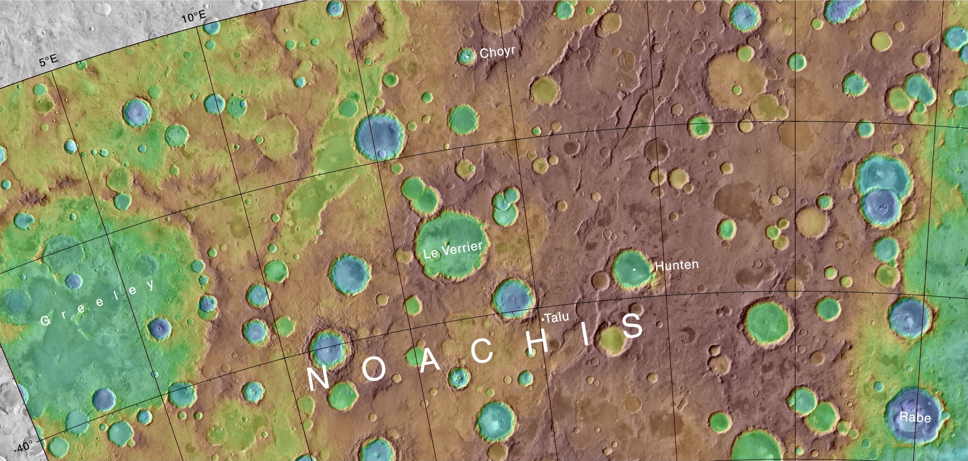 Map showing the location of Rabe Crater and other nearby features